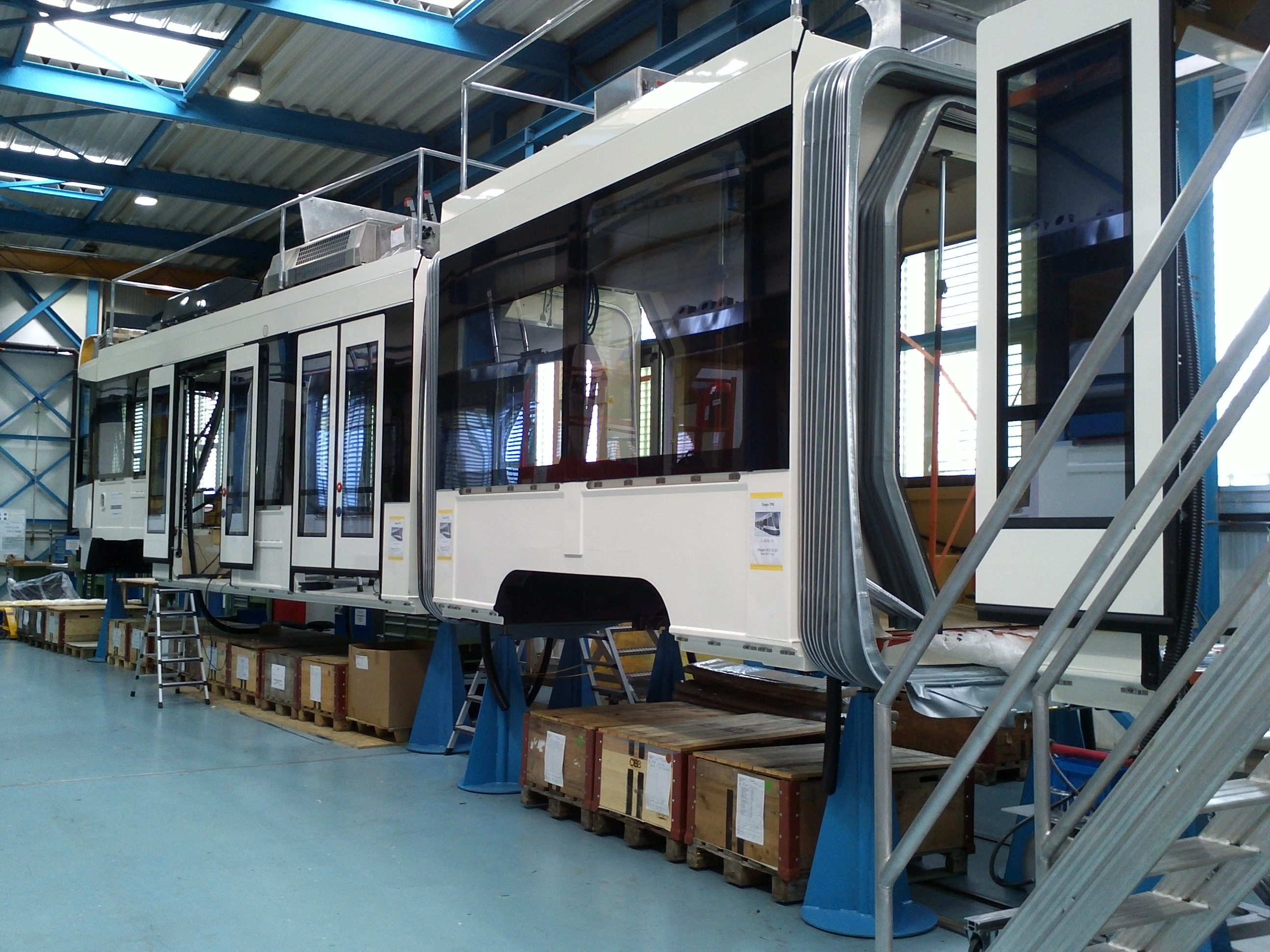 Tramway Tango for the TPGG, here being assembled in Bussnang